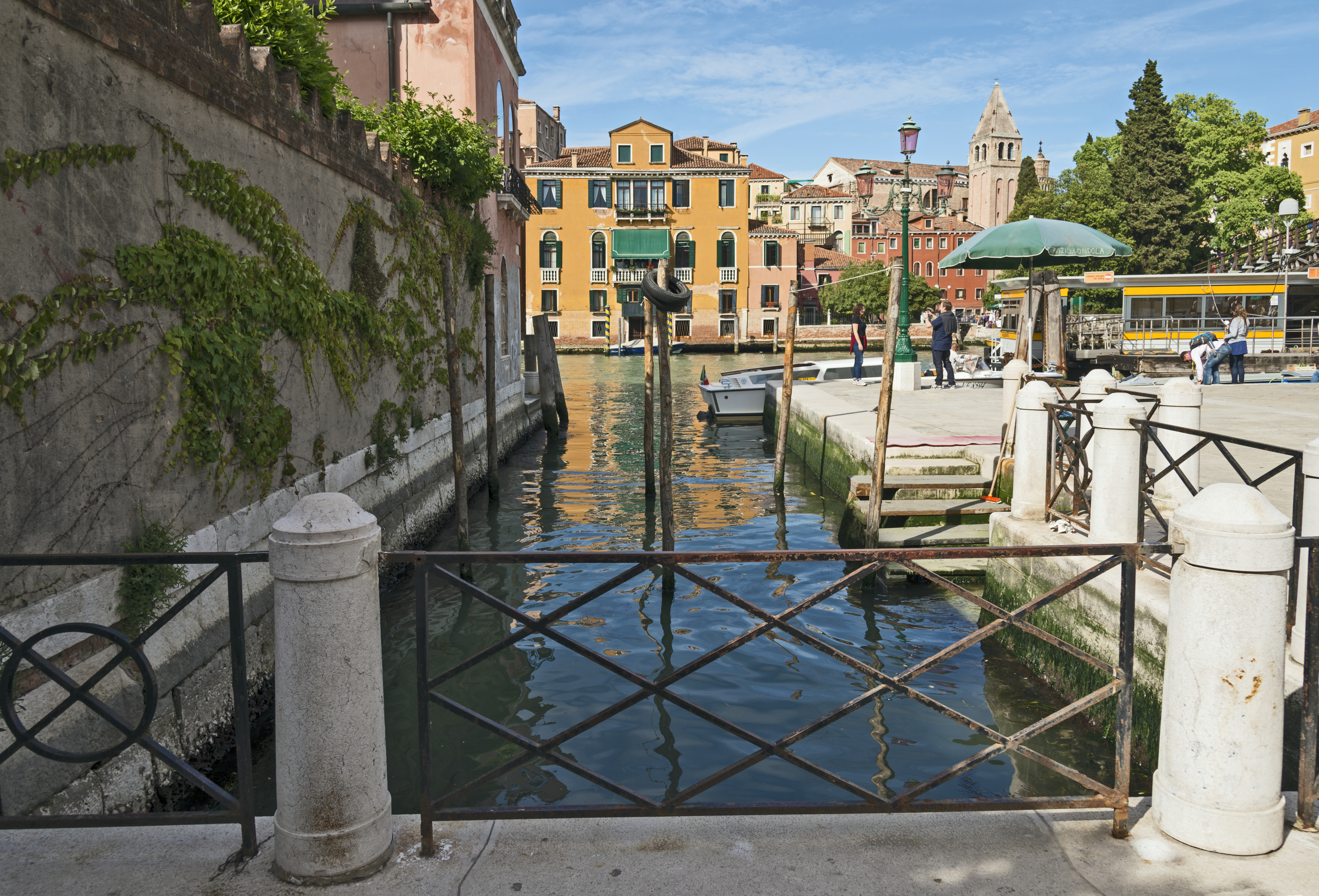 Rio de la Carità in Venice